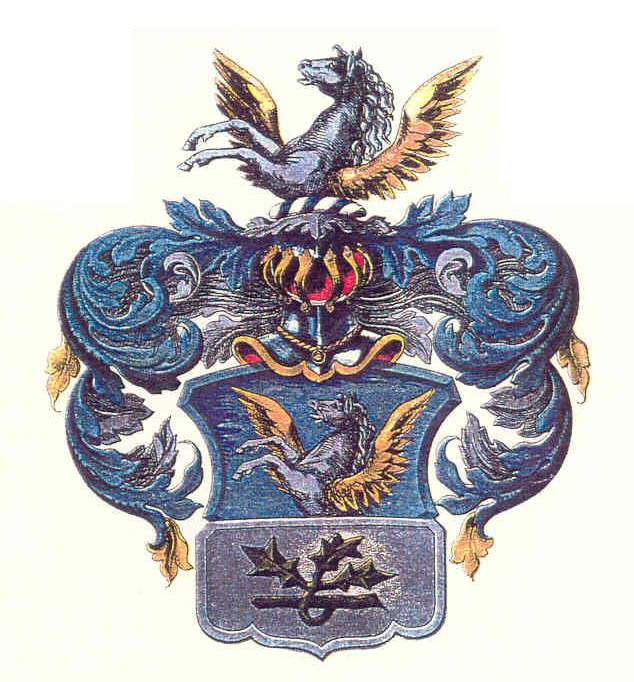 Armory of the Pagenstecher Family, Westphalia, Germany